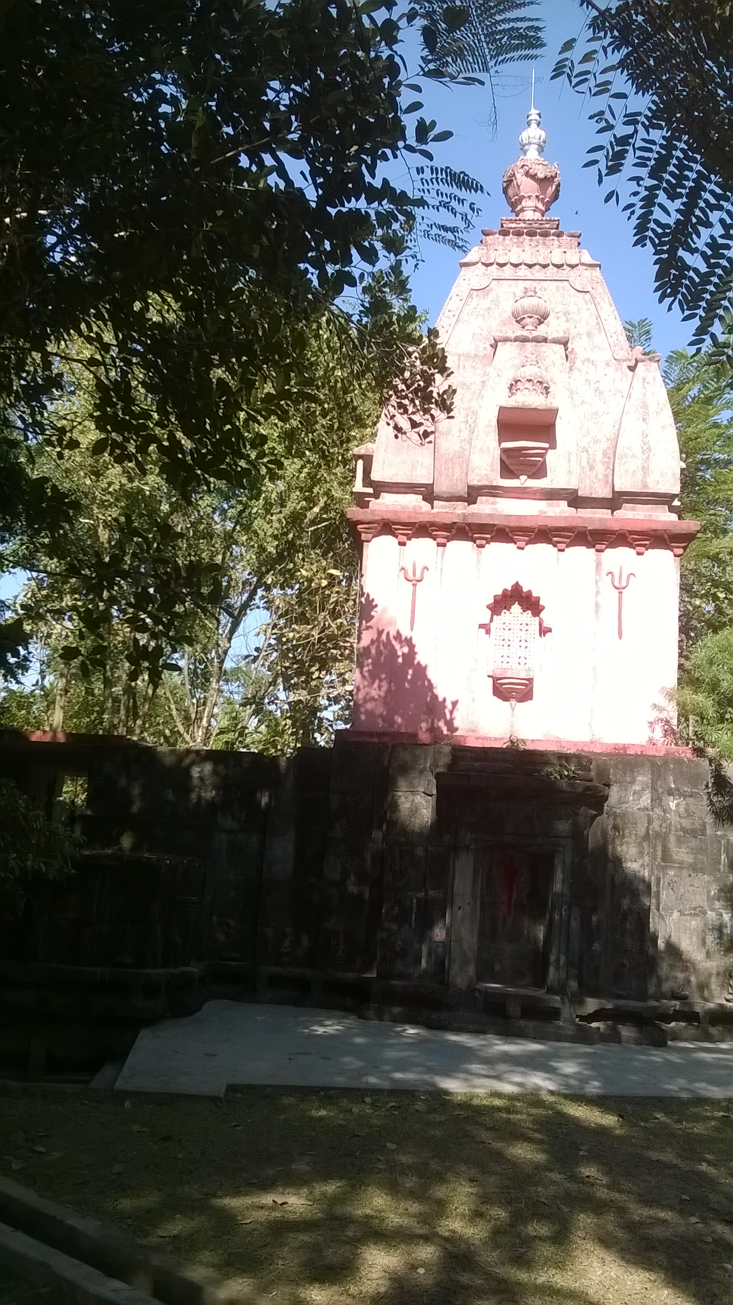 Jatileswar Temple of Lord Shiva